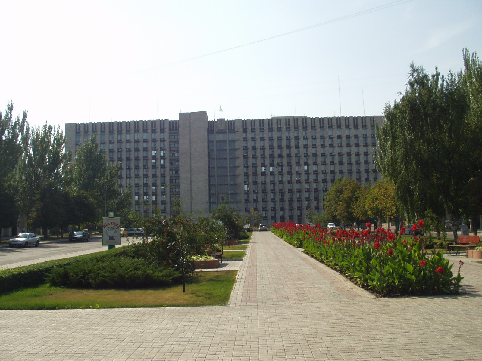 Oblgosadministracia of Donetsk Oblast. Located in city Donetsk. Photo created 21 August 2006.